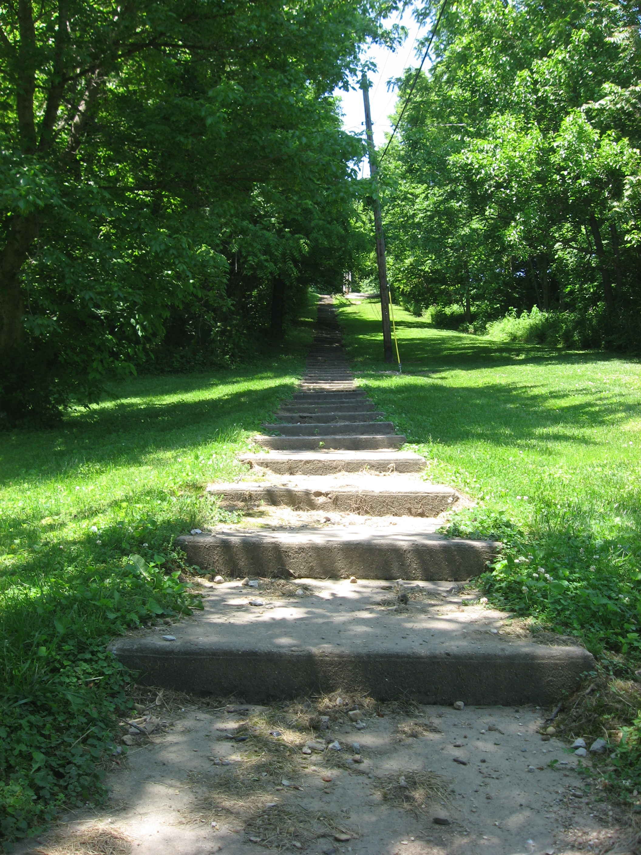 Looking up the Hillsdale Steps from their base, located at the junction of Second and Lincoln Streets at Hillsdale in Helt Township, Vermillion County,Indiana, United States. They were built in 1903 to connect two altitude-separated portions of the community.